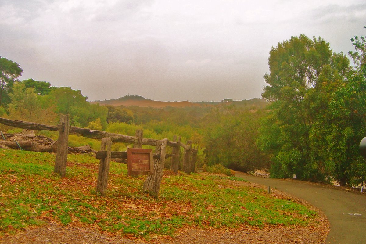 Mount Annan Botanic Gardens, Mount Annan, NSW, Australia.